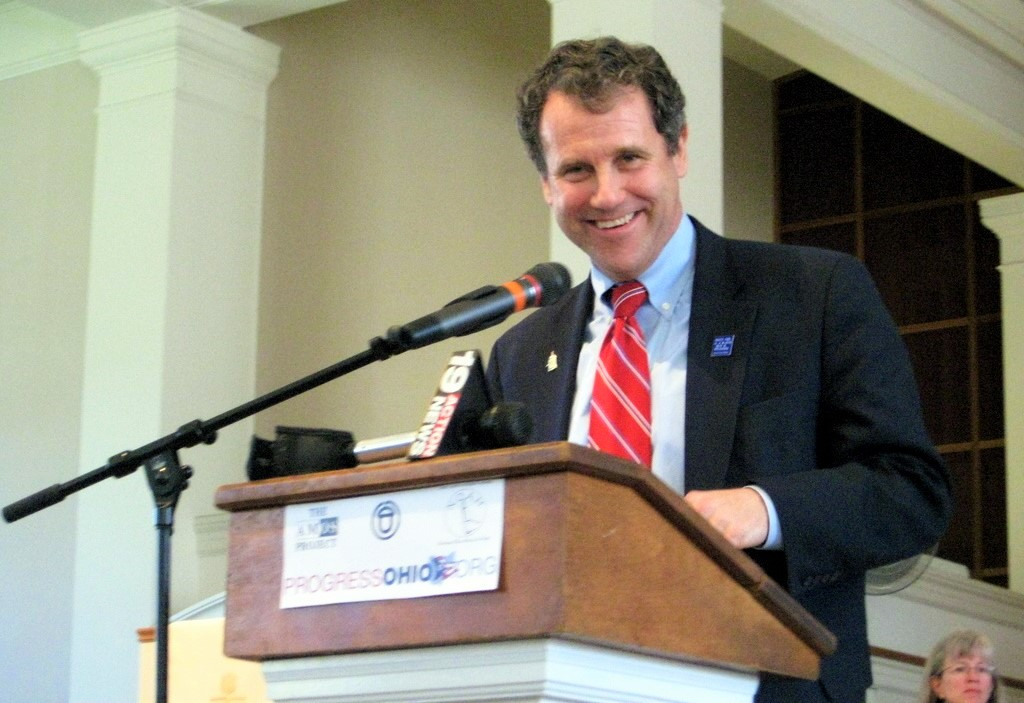 Health Care For America Now Rally, Cleveland Heights, Ohio